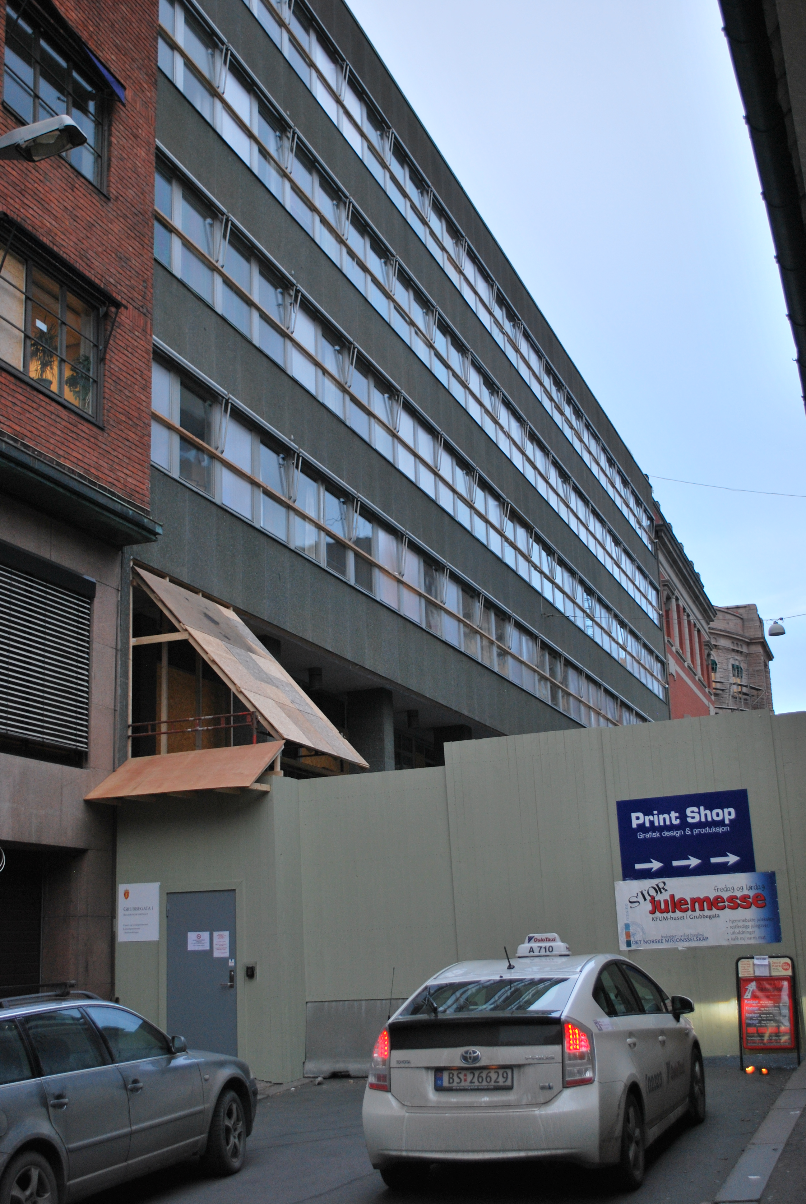 Regjeringskvartalet, Oslo, building Grubbegata 1, November 2011